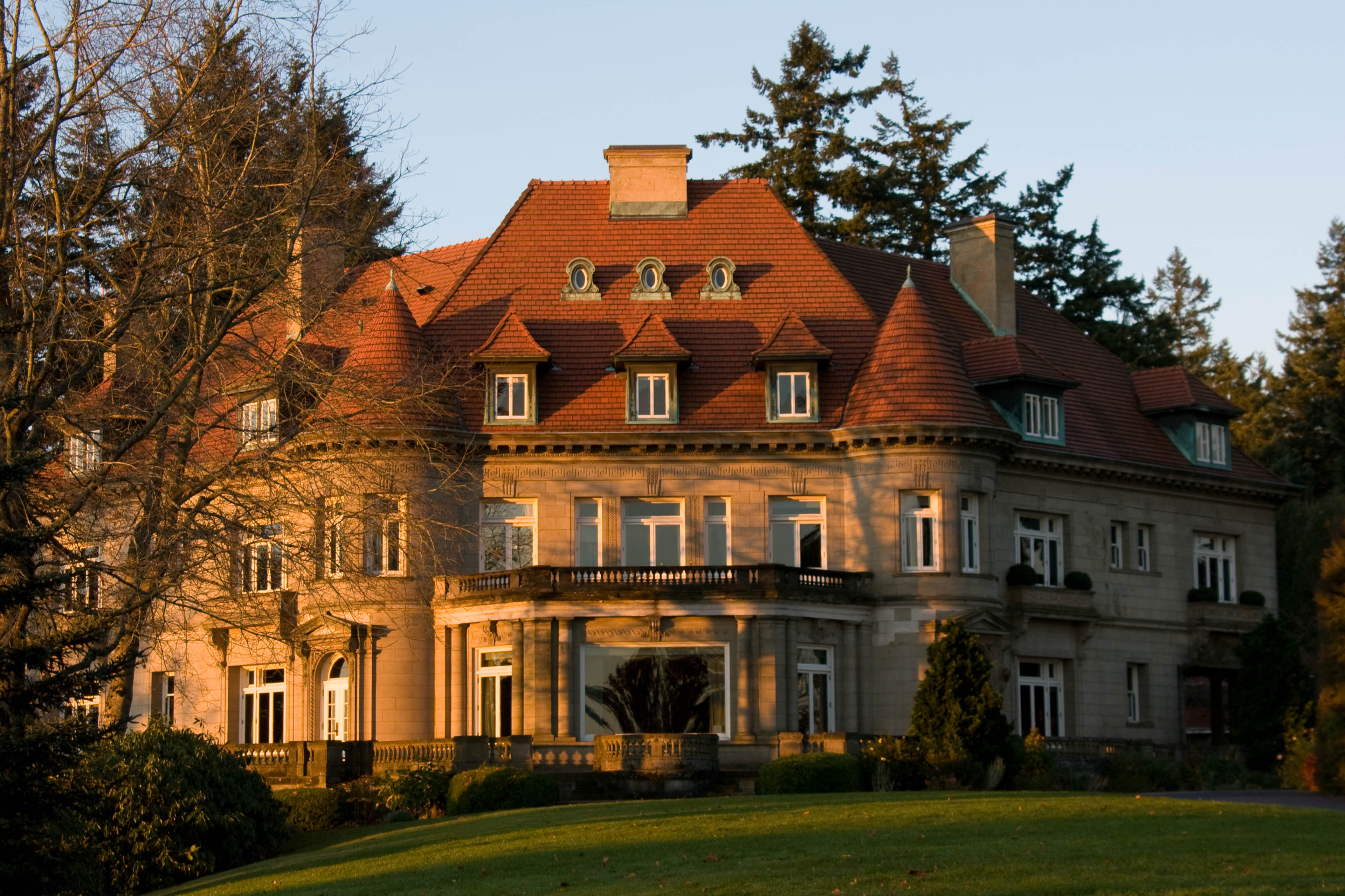 Pittock Mansion, Portland, Oregon